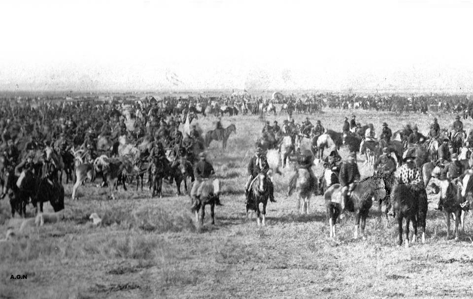 The Argentine Army, leaded by General Julio A. Roca, commorates an anniversary of the May Revolution on the banks of the Río Negro.